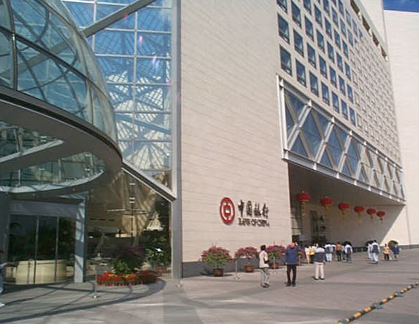 Bank of China Headquarters, Beijing, China